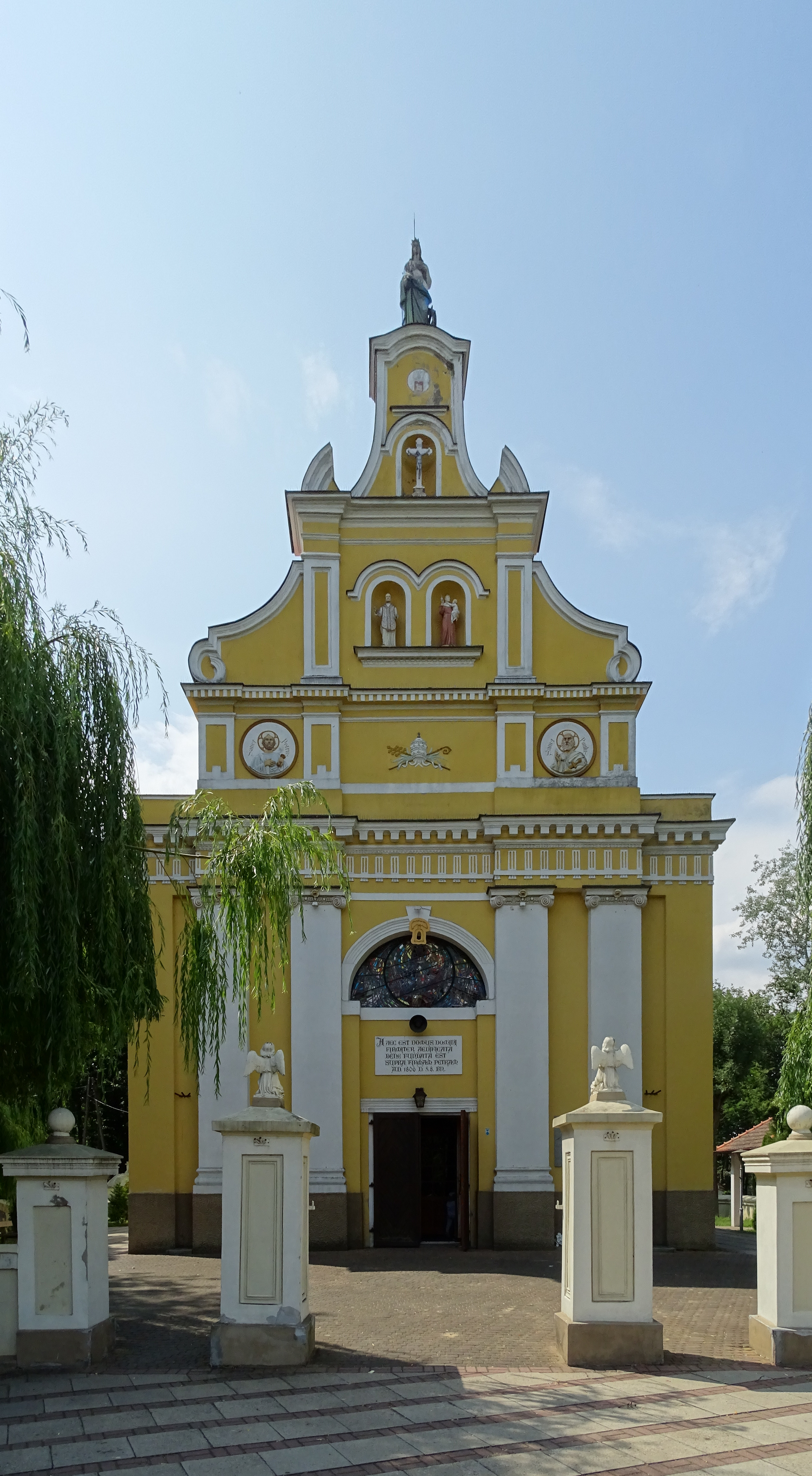 Pogrzybów, Gmina Raszków, Greater Poland. Church of Saint Catherine of Alexandria. Completed in 1806.